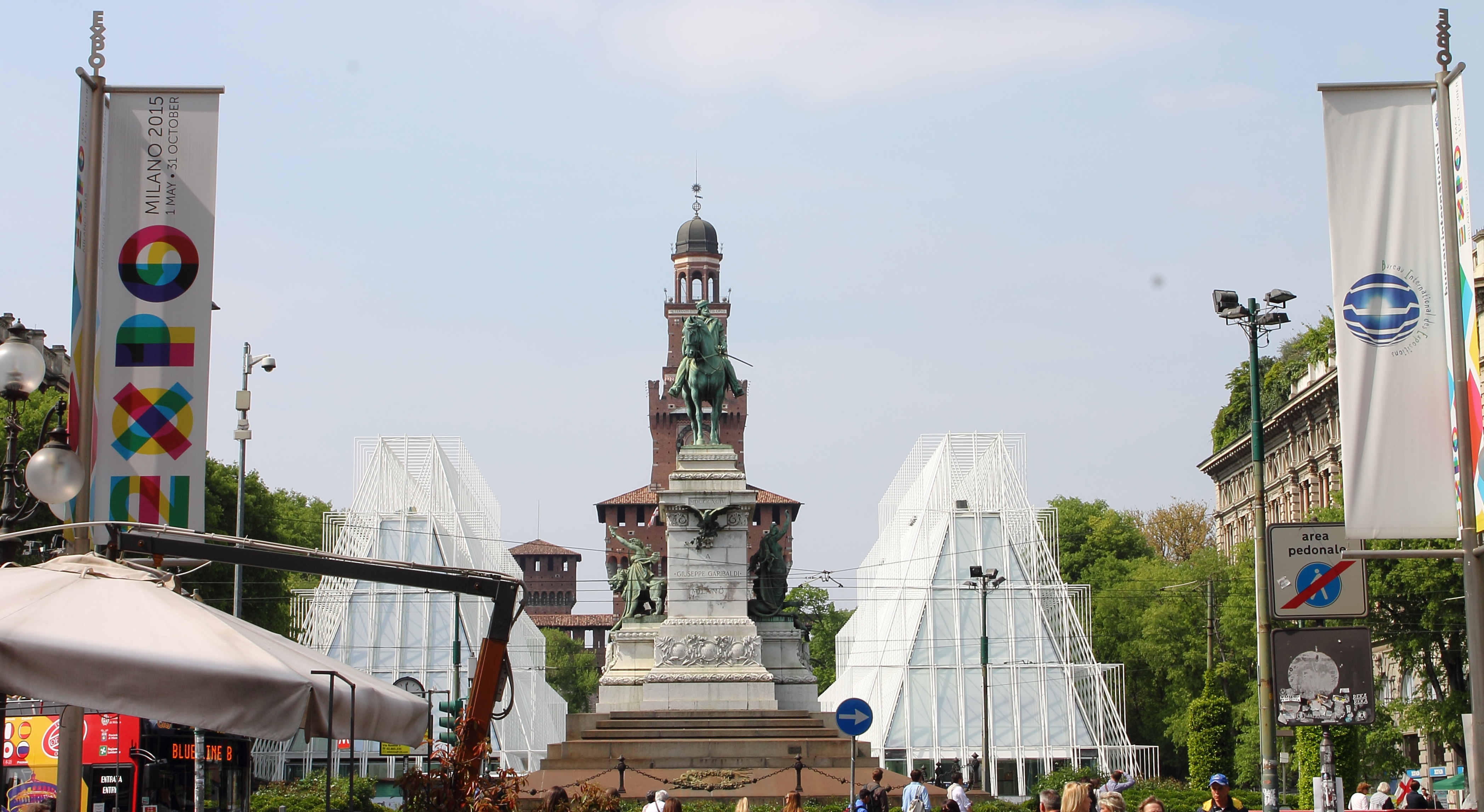 EXPO 2015 - Milano - Piazza Castello, Expo Gate